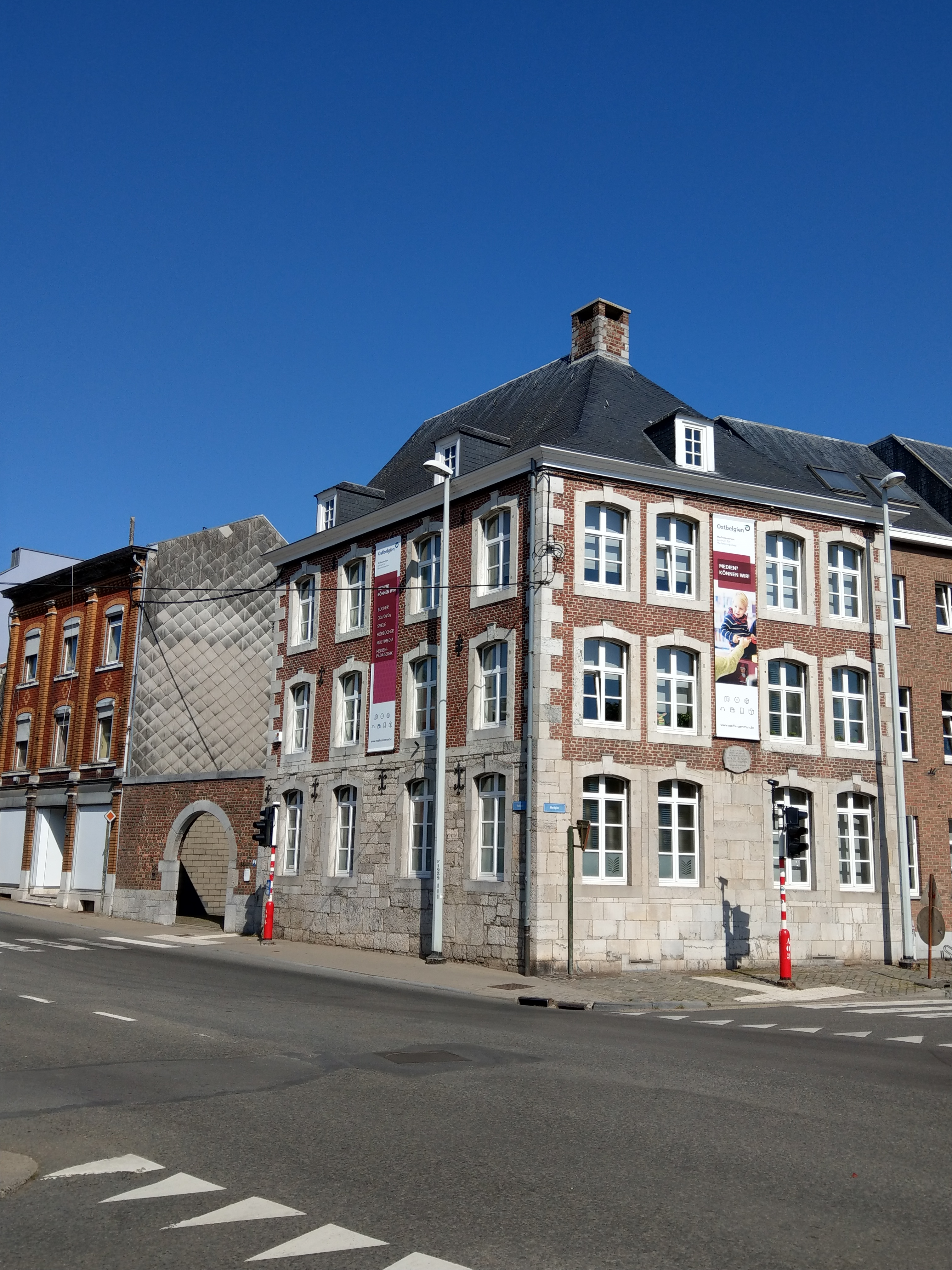 Explanations and history, see category